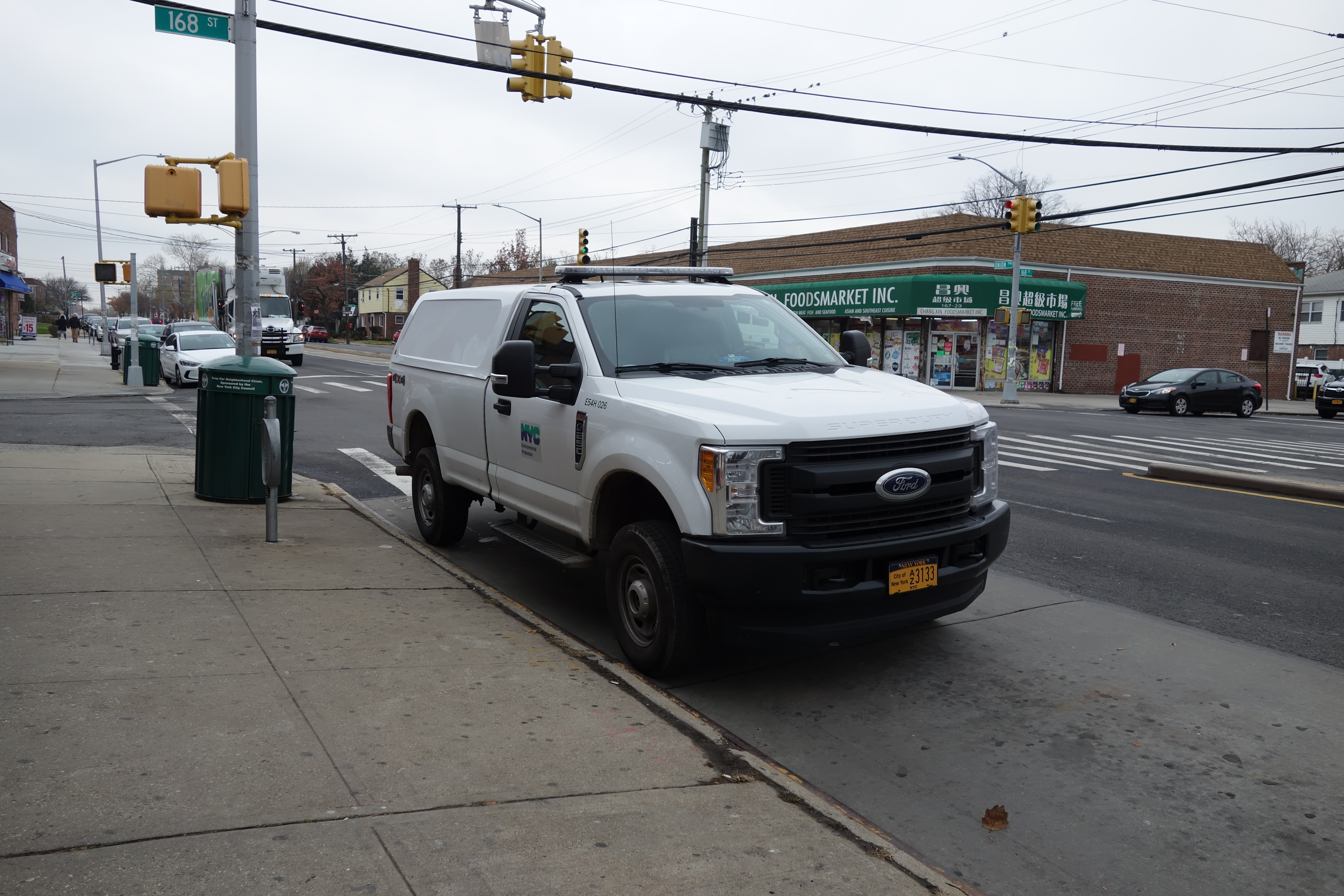 A Ford F-250 of the NYCDEP parked at the southeast corner of Union Turnpike and 168th Street in Hillcrest, Queens.